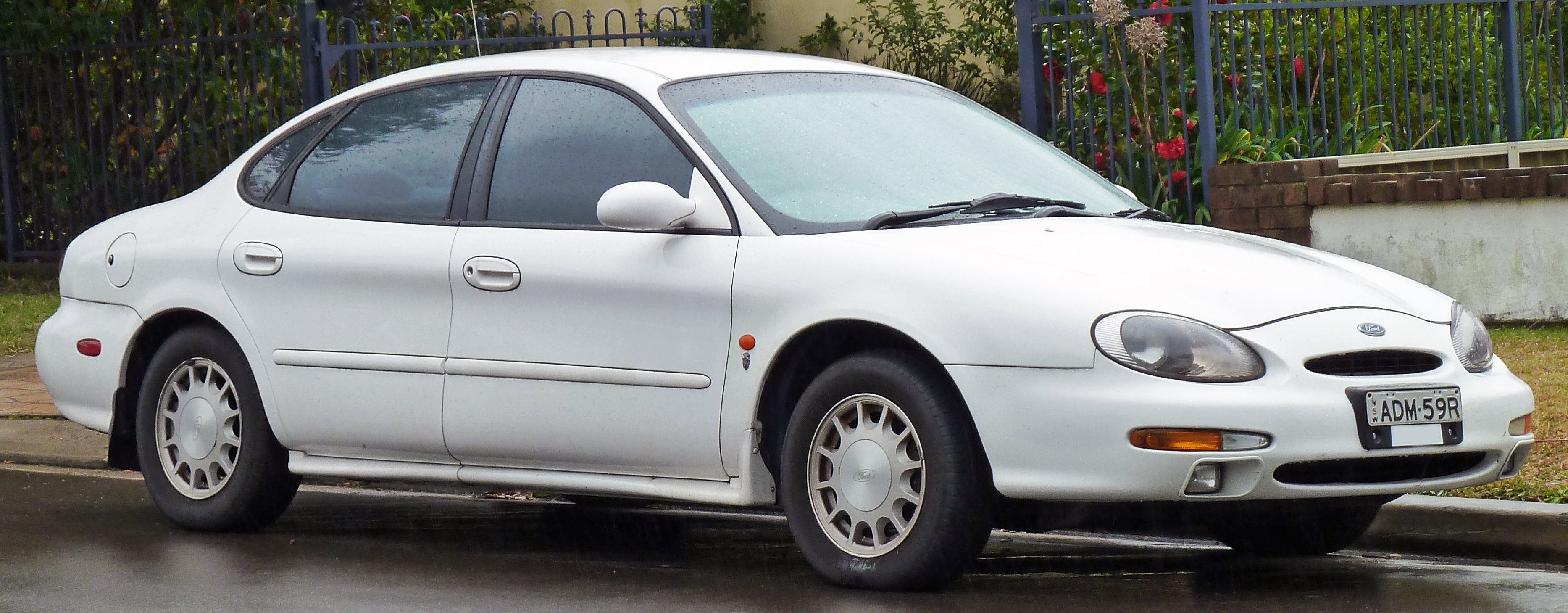 1996 Ford Taurus (DP) Ghia sedan. Photographed in Miranda, New South Wales, Australia.